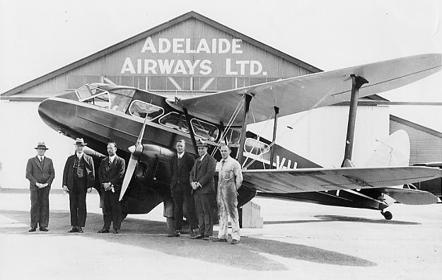 This photo shows one of three Adelaide Airways De Havilland DH89A Dragon Rapides, VH-UVT (c/n 6319). The photo was probably taken at Adelaide/Parafield, however the identities of the worthies in the photo are not known.